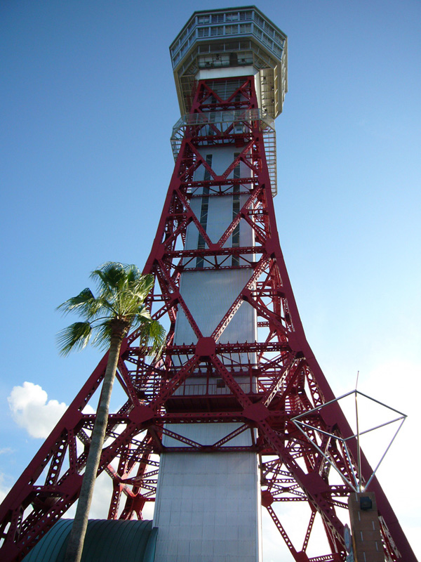 The Hakata Port Tower.